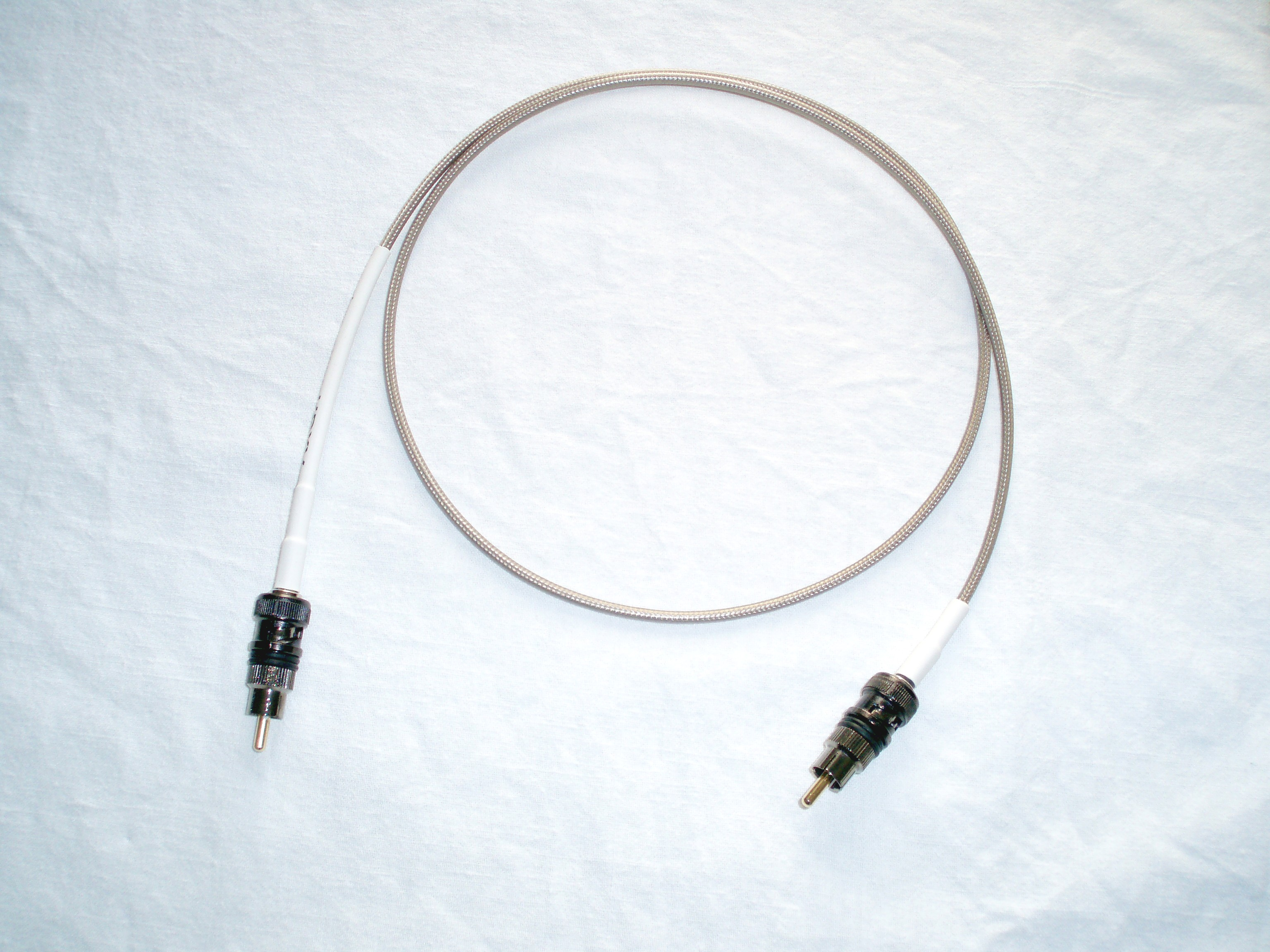 Stereovox HDXV, high-end audio cable (Wikipedia:S/PDIF).